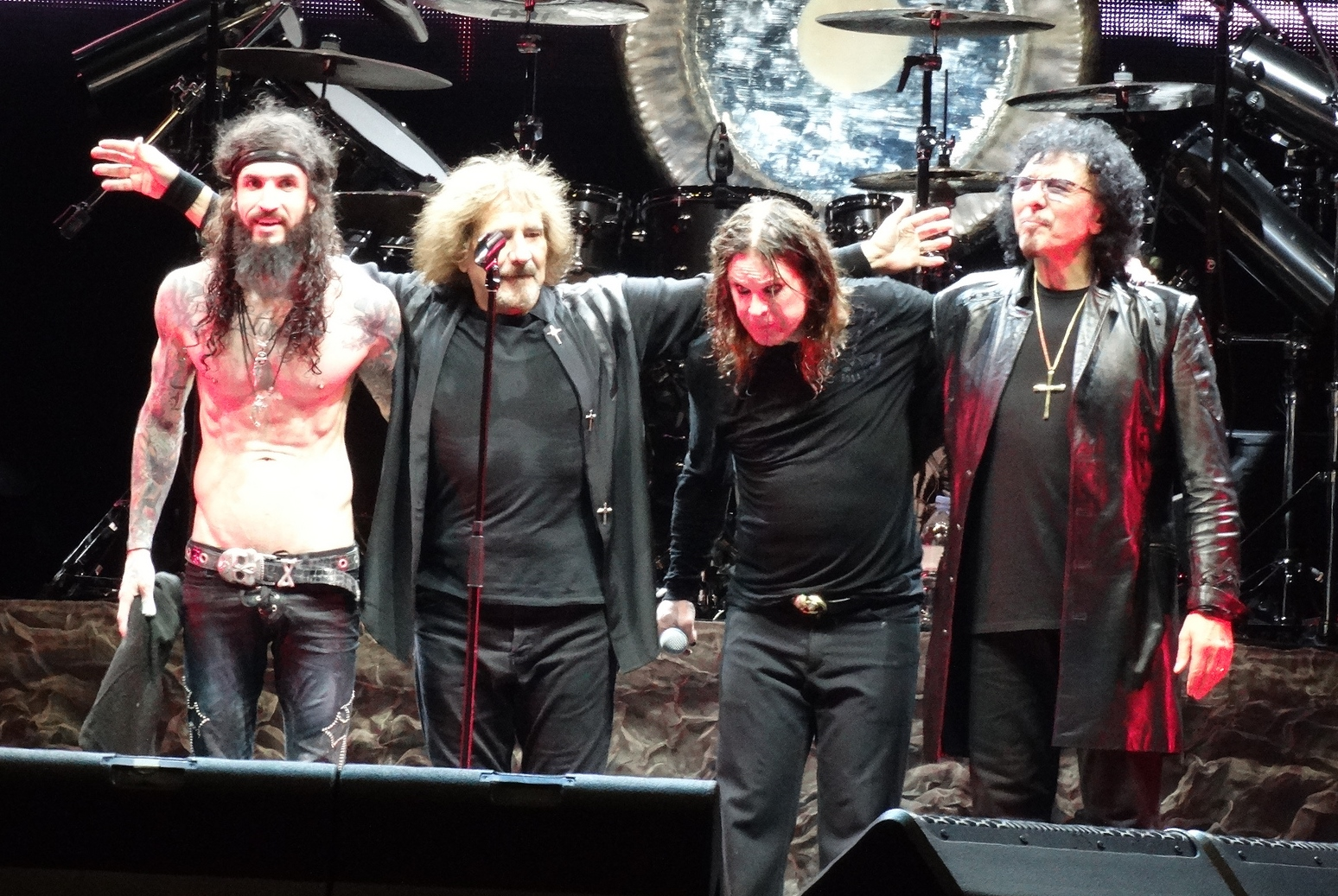 Black Sabbath peforming live in Brazil (2013).